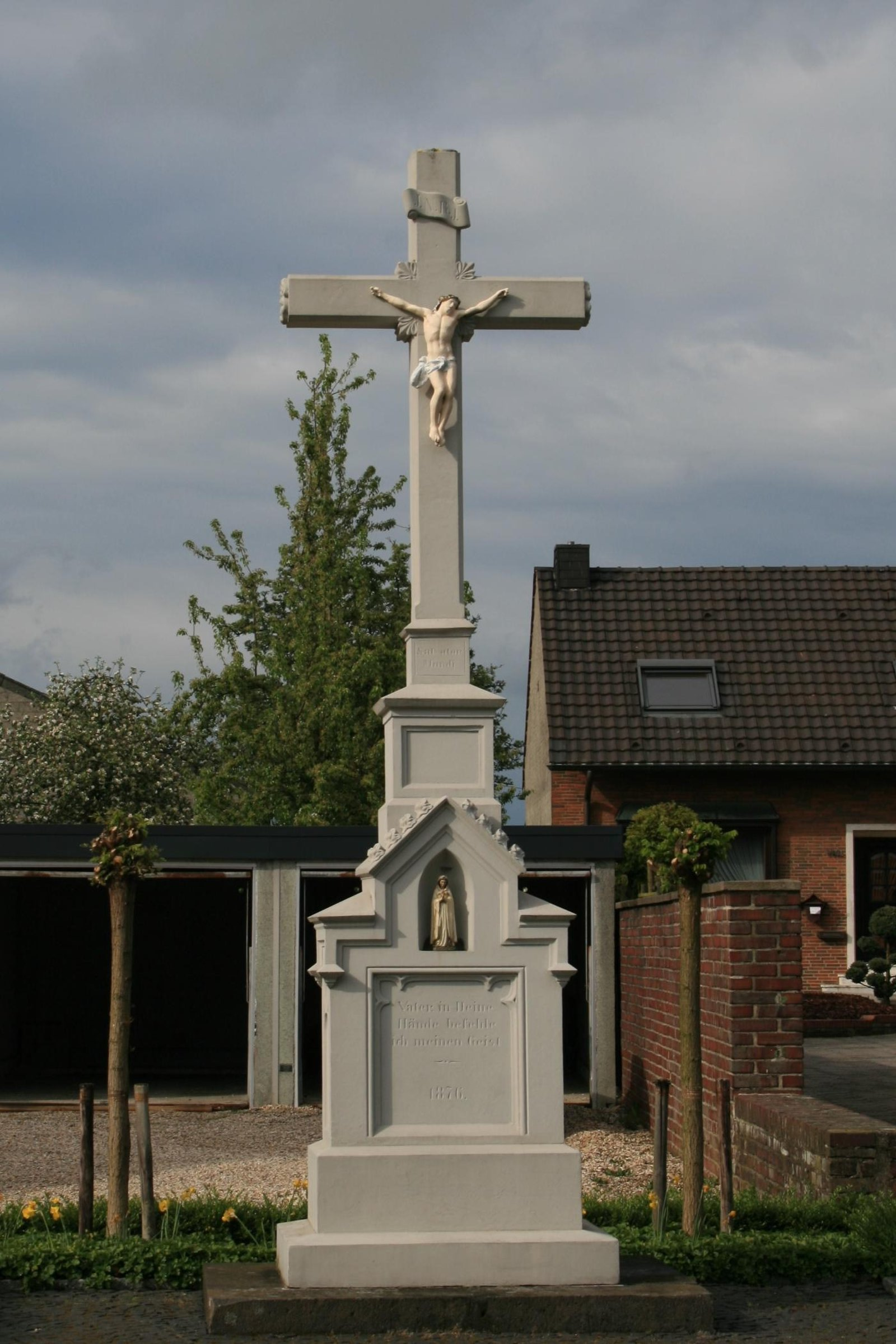 Cultural heritage monument No. T 017 in Mönchengladbach